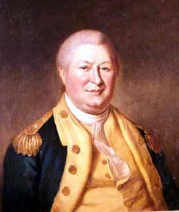 William Smallwood, 1732-1792 from life